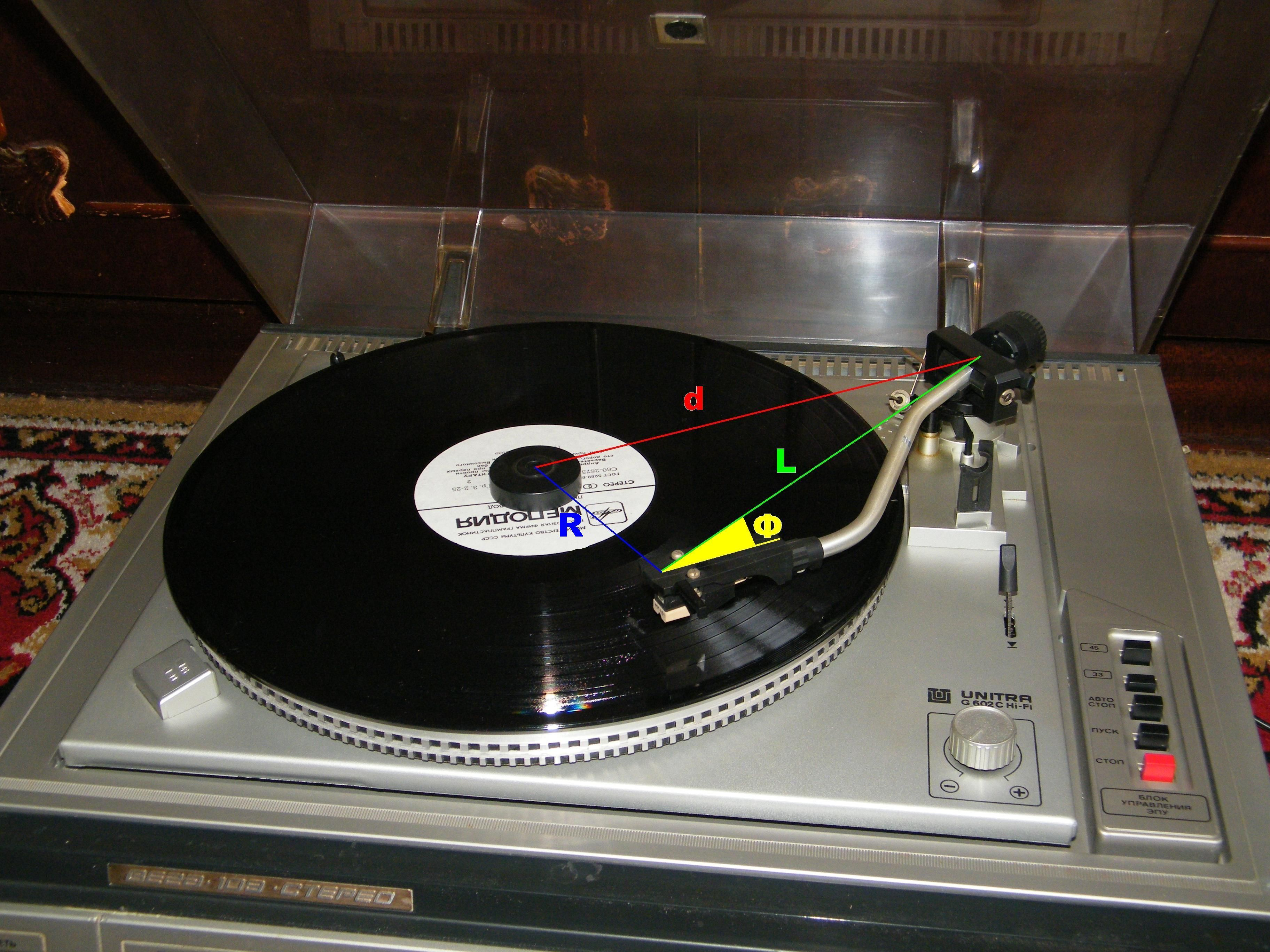 Vega 109 stereo turntable. USSR, 1980s